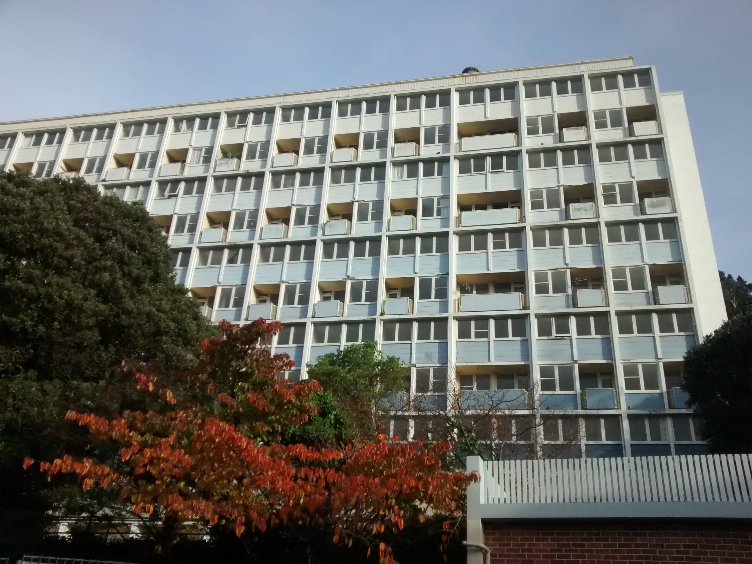 The Gordon Wilson Flats from the Terrace in Wellington, New Zealand